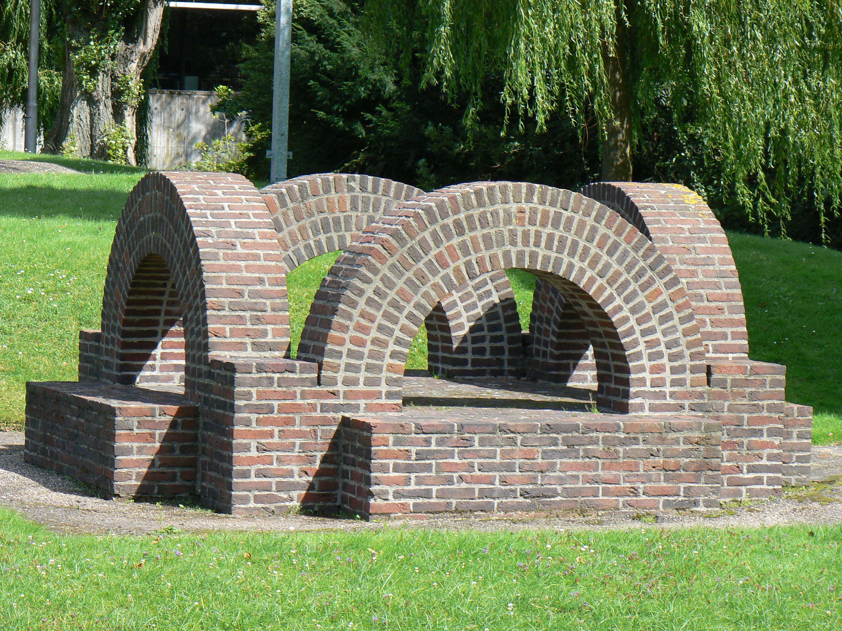 sculpture by Per Kirkeby in Rotterdam/The Netherlands